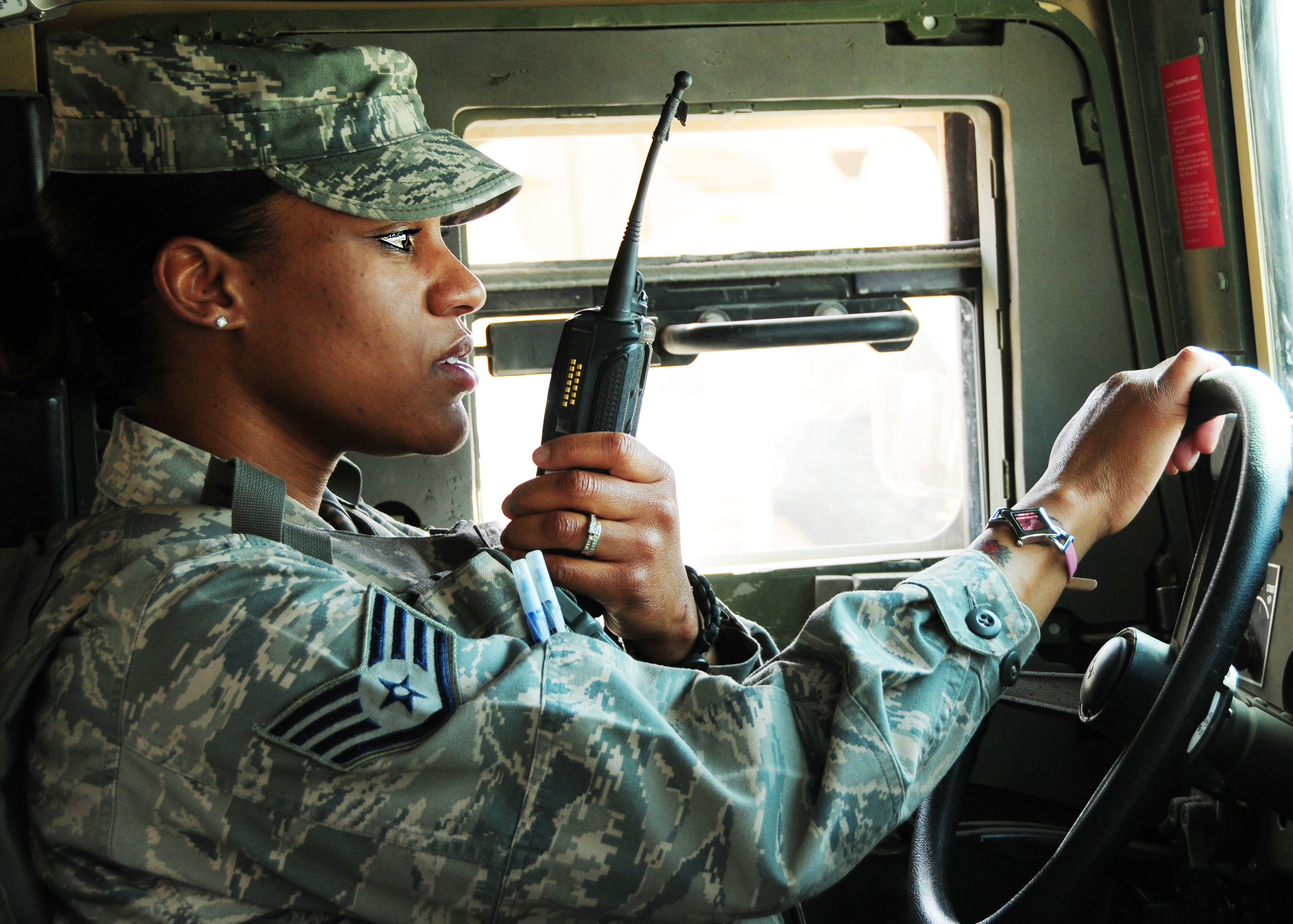 Staff Sgt. Mia Hackett, 438th Air Expeditionary Advisory Squadron SFS member, was one of 13 members who responded to the wing following the fatal shooting of nine 438th members April 27. The 28-year-old is assigned to Seymour Johnson Air Force Base and has spent more than eight years in the Air Force. Hackett, from Colorado Springs, Colo., plans to apply for officer training school and eventually own her own law firm. (Photo by Senior Airman Amber Williams)